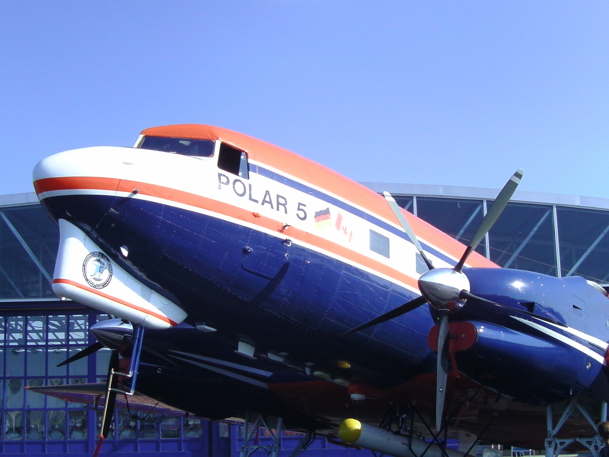 A Basler BT-67 with registration C-GAWI in service for the Alfred Wegener Institute for Polar and Marine Research at the airfield of Bremerhaven